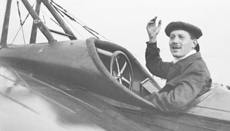 Portrait of Maurice Prevost, French aviator, sitting in the pilot's seat of an airplane, looking over is left shoulder, raising his right hand, with a group of men watching from the background. This image was taken at the Second International Aviation Meet held in Chicago, Illinois, from September 12 to 21, 1912. The first half of the meet was held at an aviation field in Cicero, and the second half of the meet was held on the lake front in Grant Park.